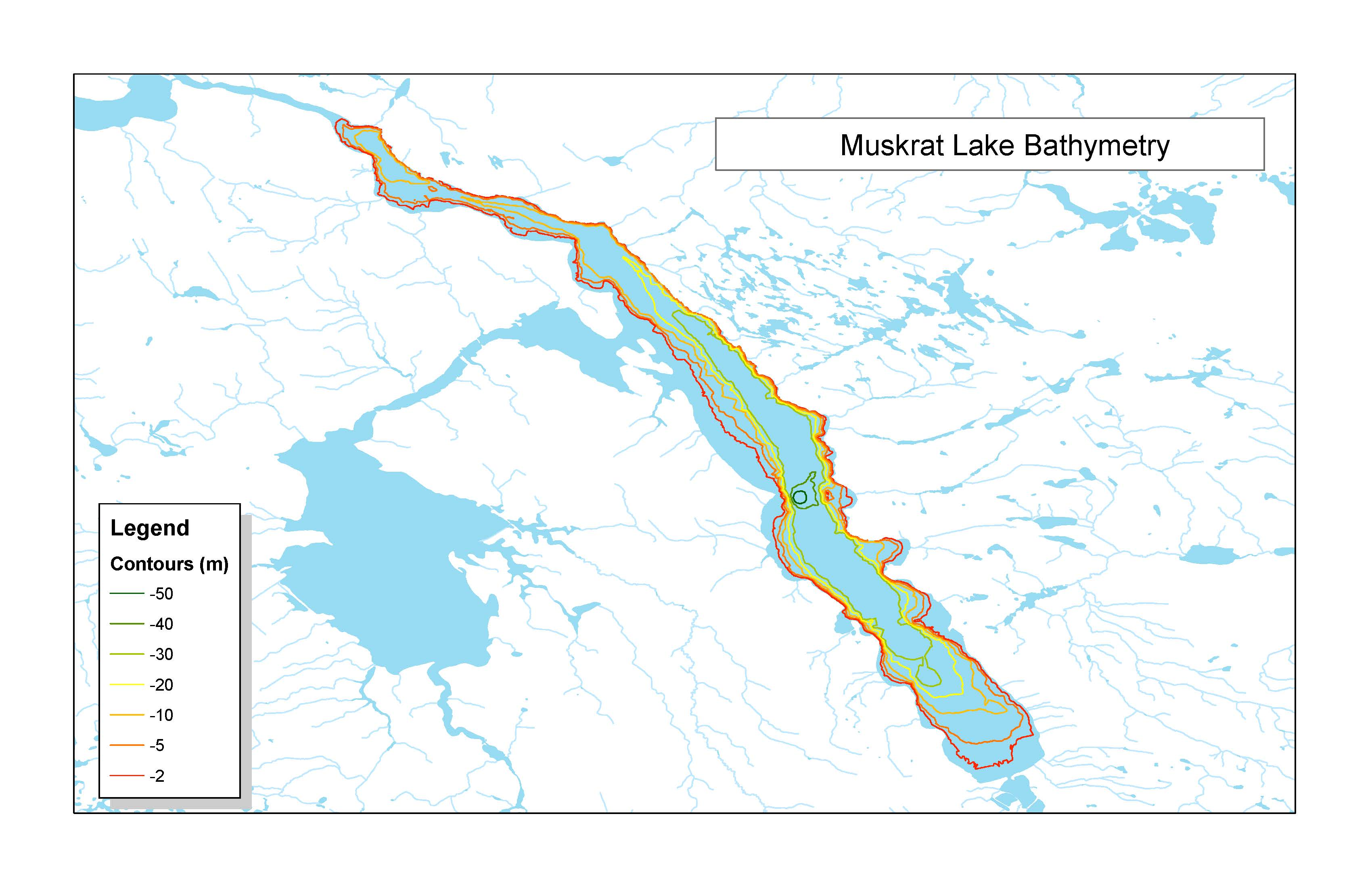 Map of Muskrat Lake defining the depth levels